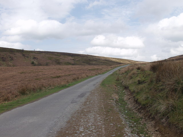 Esclusham Mountain Road. Having come up through the trees from below World's End the road suddenly opens out onto open moor.